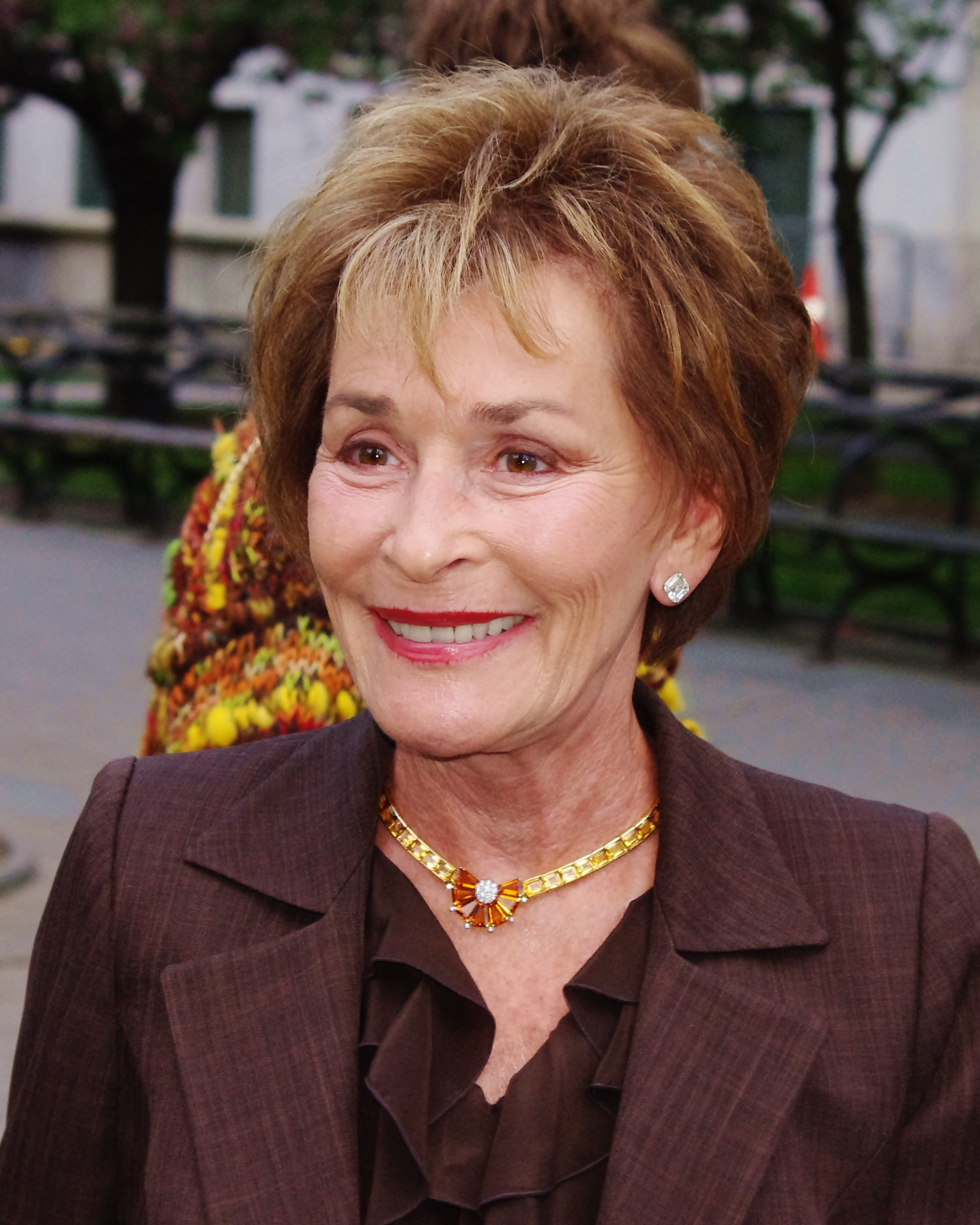 Judge Judy at the Vanity Fair party for the 2012 Tribeca Film Festival.